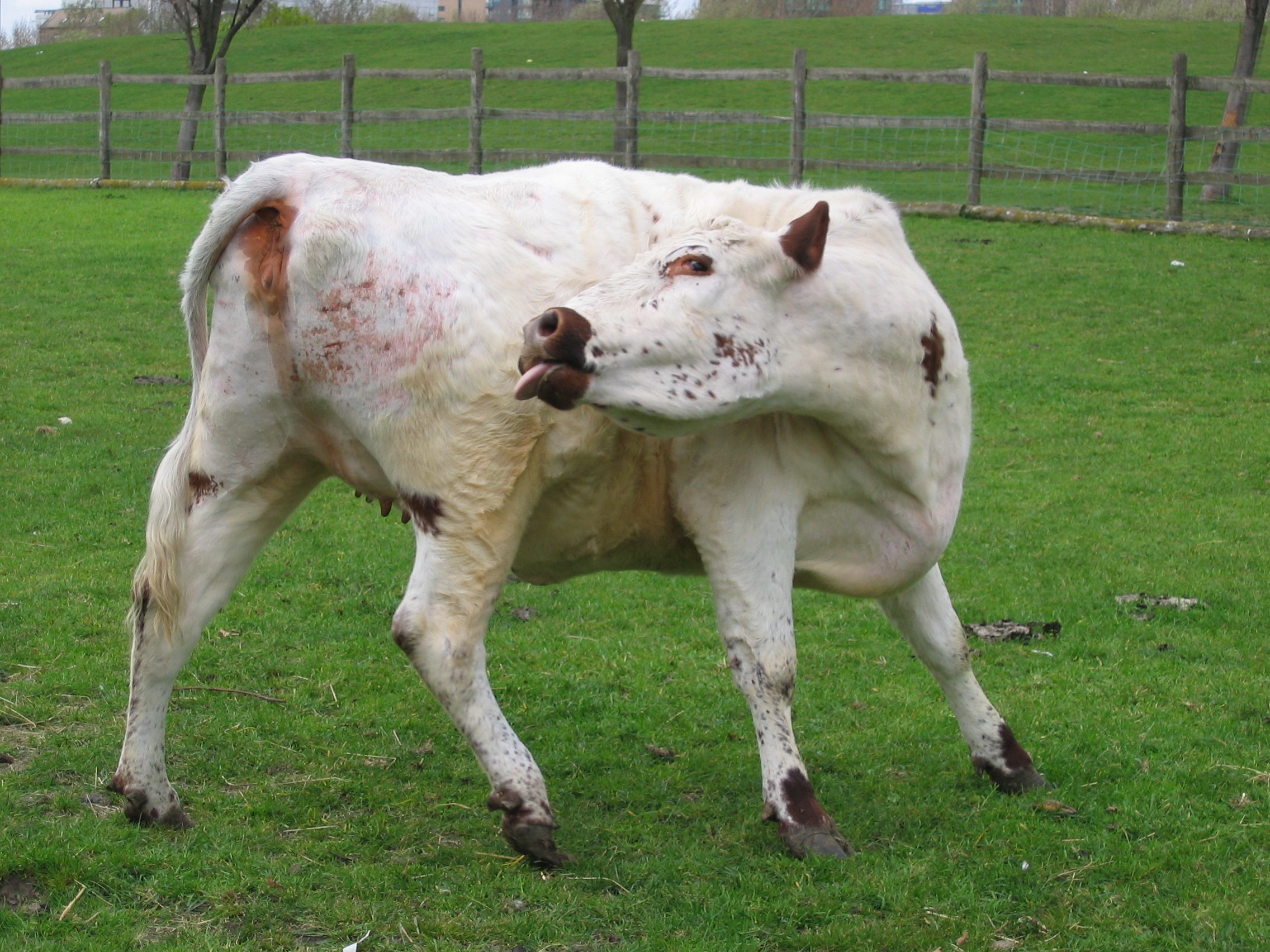 Mudchute City Farm cow licking itself. Breed - Irish Moiled.